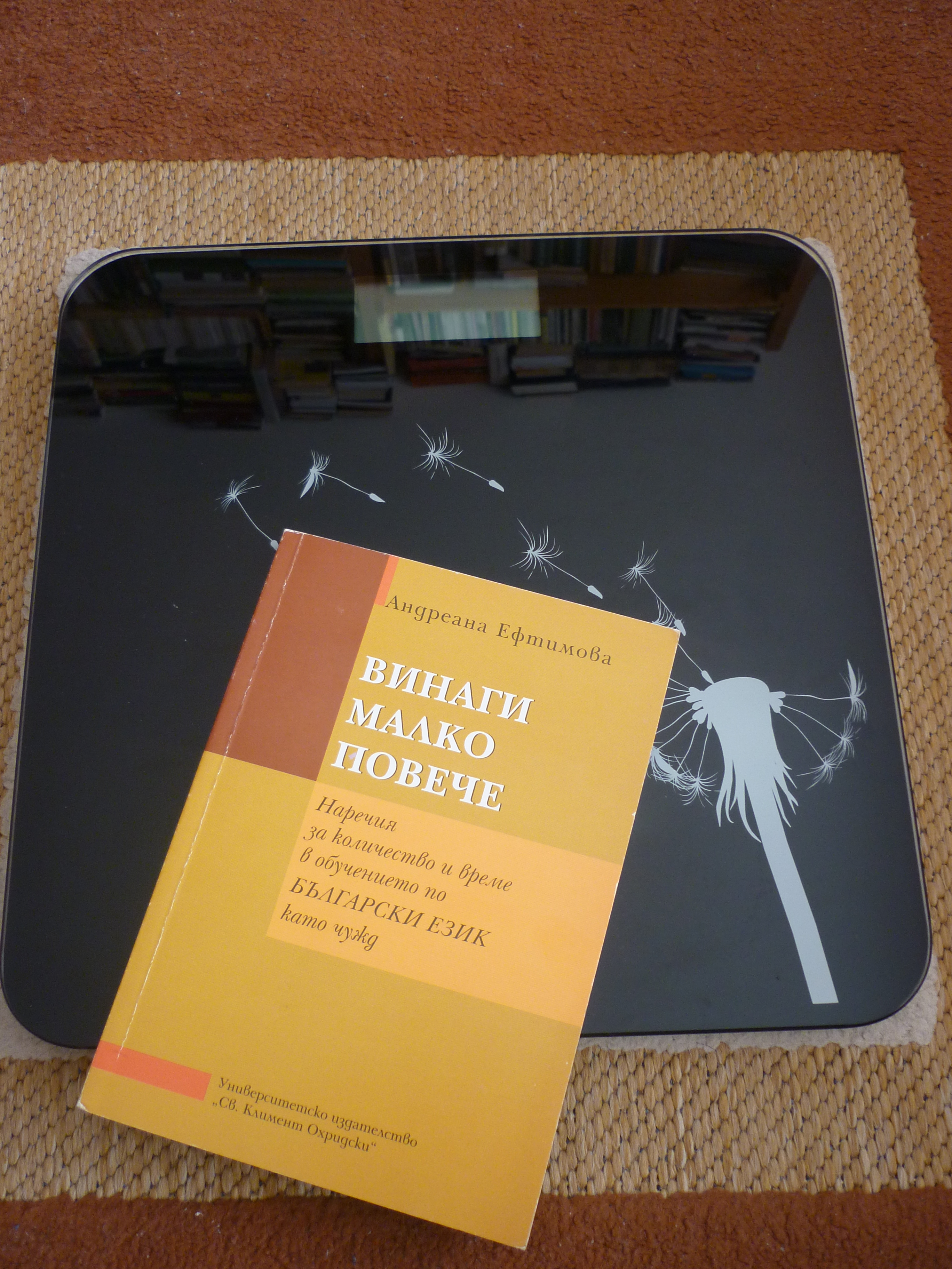 „Always Little More“, cover of the first Bulgarian edition, 2010